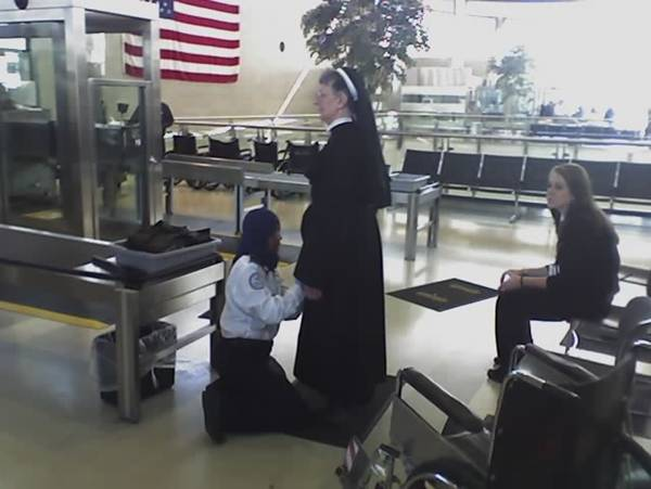 From the photograher, Dean Shaddock: This was captured as I collected my things from airport security (Detroit Metro Concourse A).